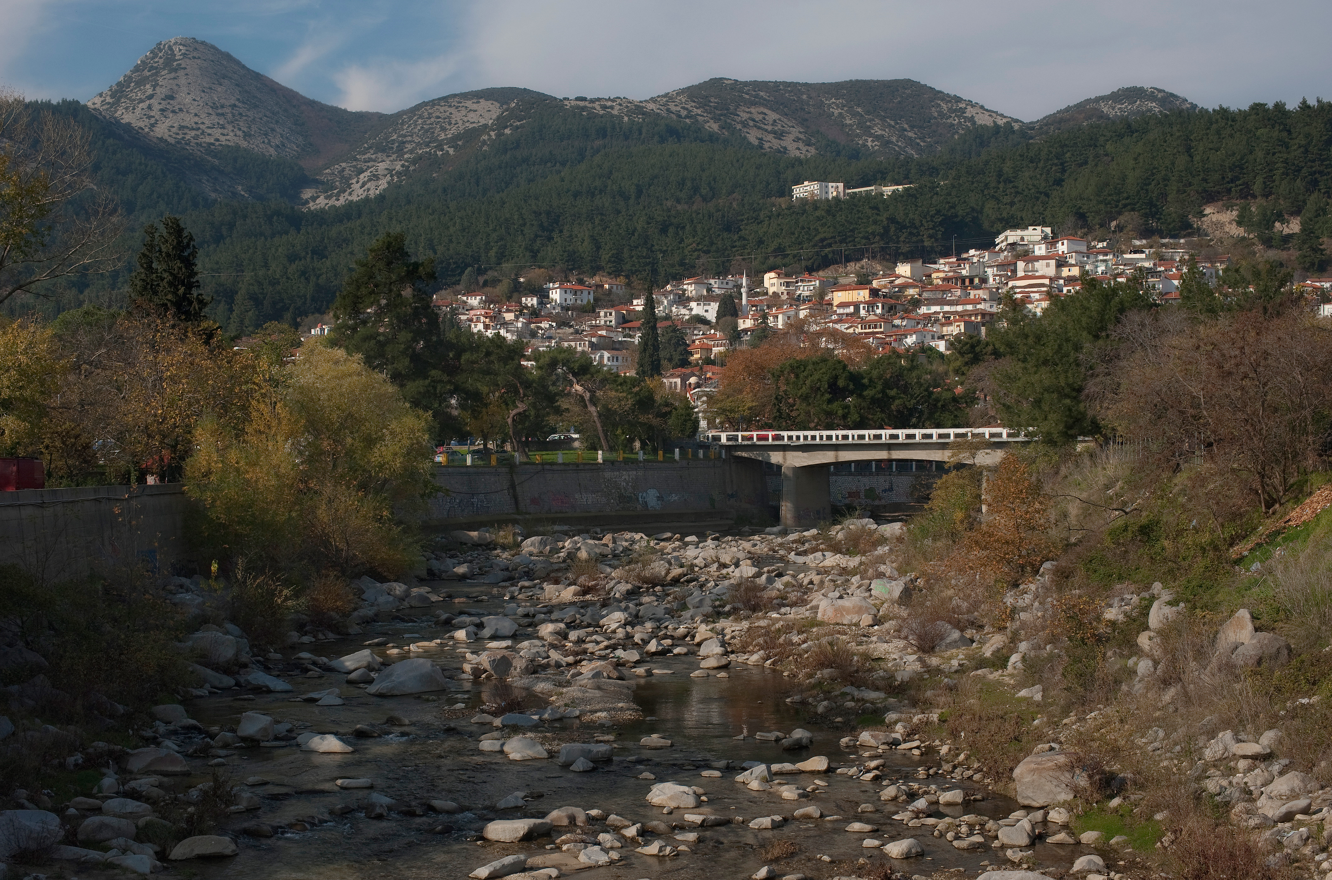 Panoramic view of Xanthi - Kosynthos river, West Thrace, Greece.